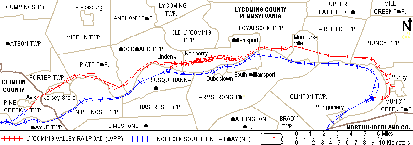 Map of Lycoming Valley Railroad in Lycoming and Clinton Counties, Pennsylvania, United States